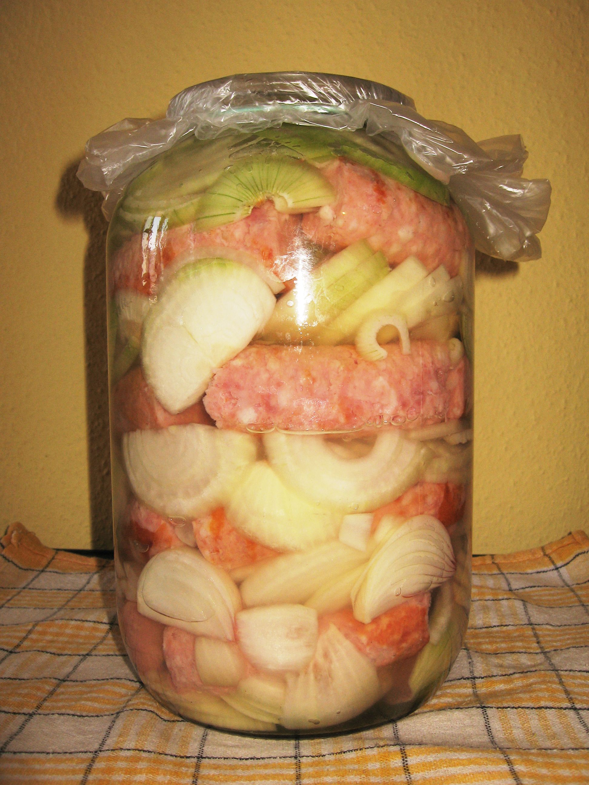 pickled bratwursts called "drowned men" in Czechia